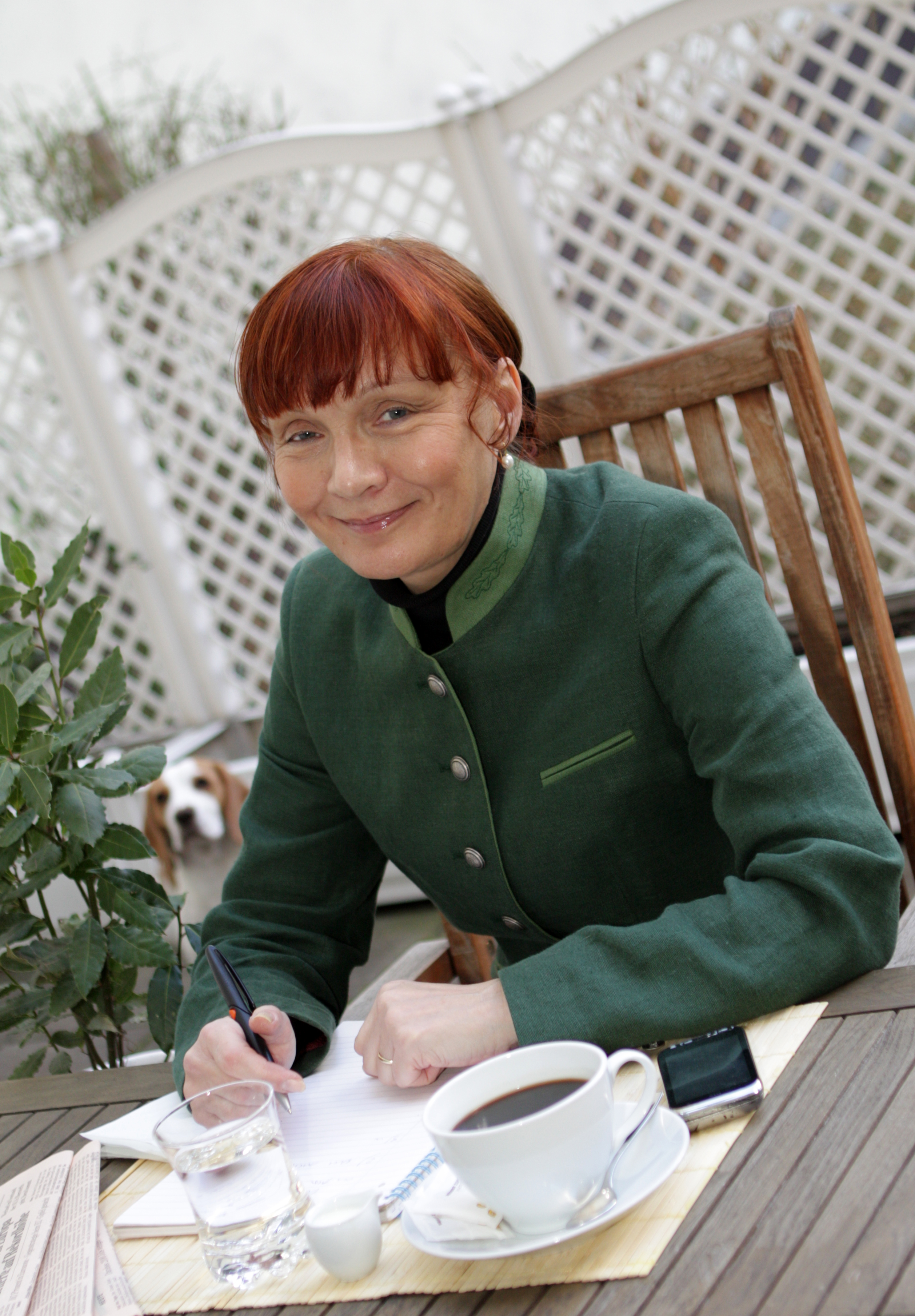 Kaarina Goldberg, finnish author and artist